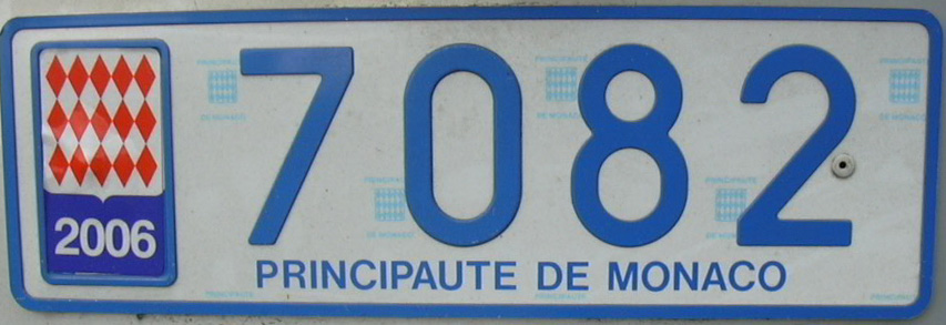 A Monegasque license plate